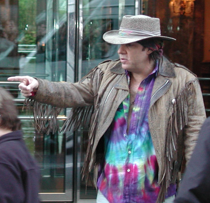 Little Steven in front of the "Four Seasons"-Hotel in Berlin